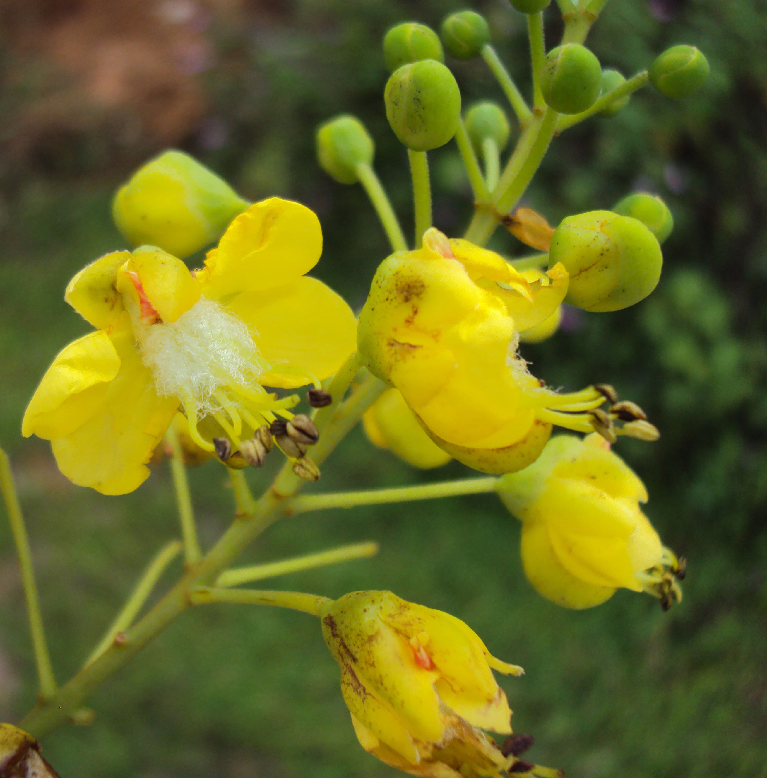 Caesalpinia sappan flowers